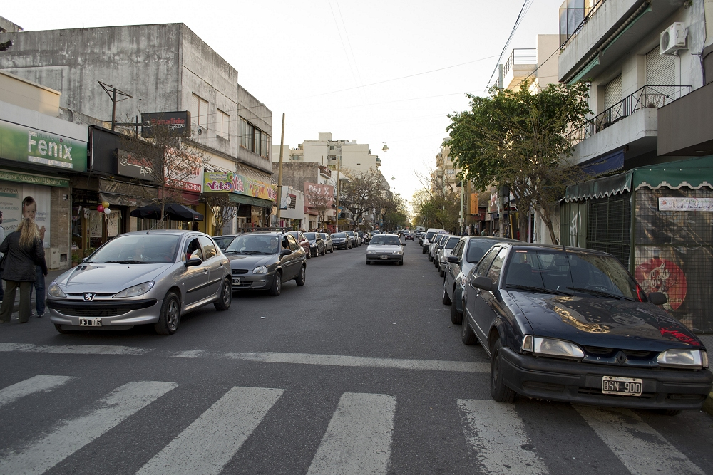 Artigas Avenue from Mosconi Av., the heart of Villa Pueyrredon neighbourhood.